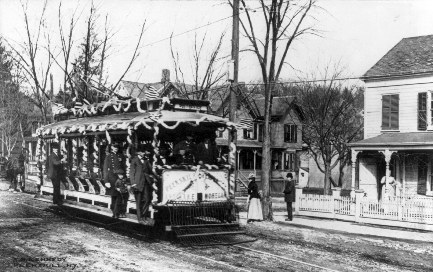 First car on Putnam & Westchester trolley road, Peekskill, New York.